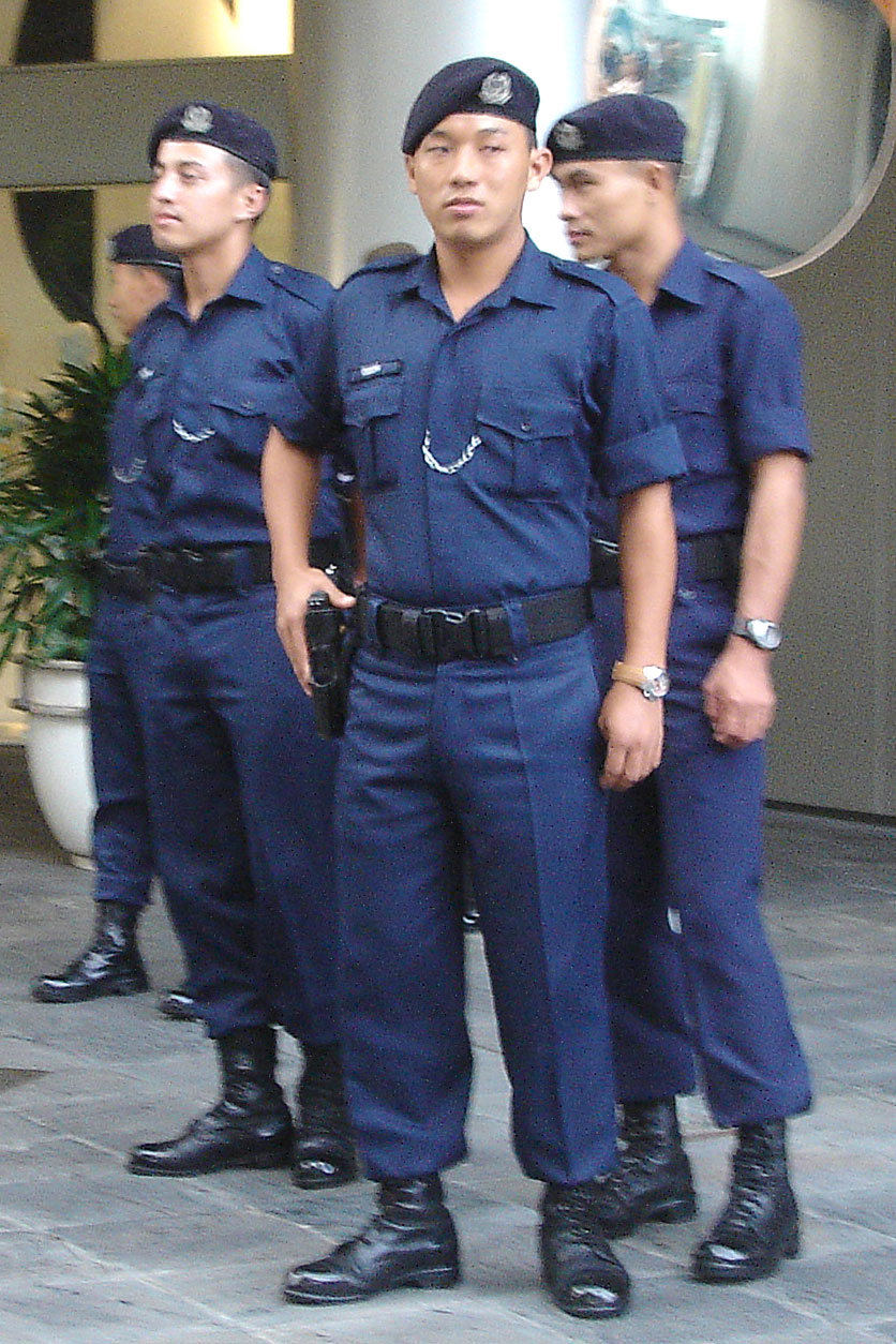 Description: Gurkha troopers at Raffles City during the 117th IOC Session. Source: Self-made Location: Raffles City, Singapore Date: 05/07/2005 18:21 Photographer/Painter: Huaiwei